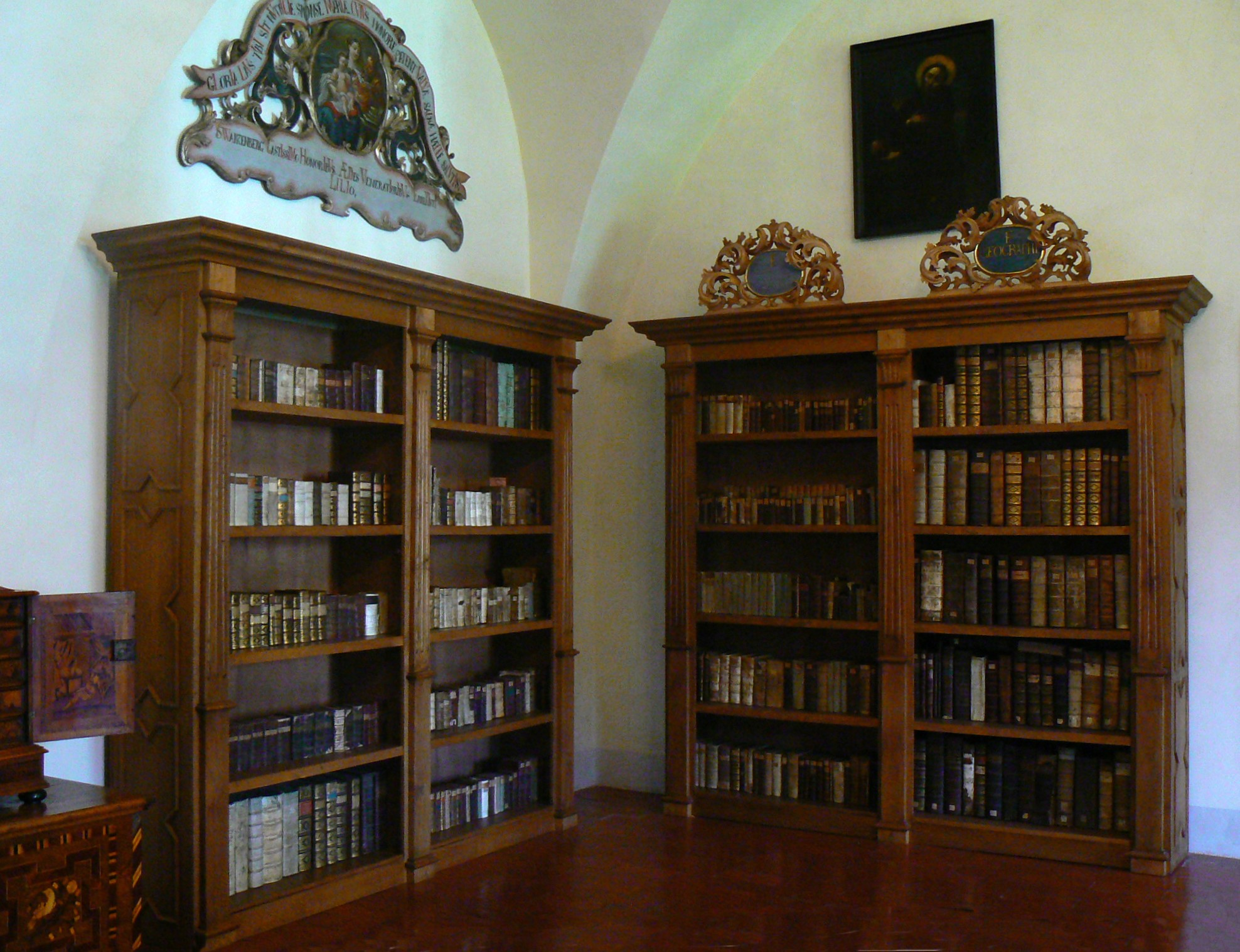 Library in Zlatá Koruna monastery, Czech Republic